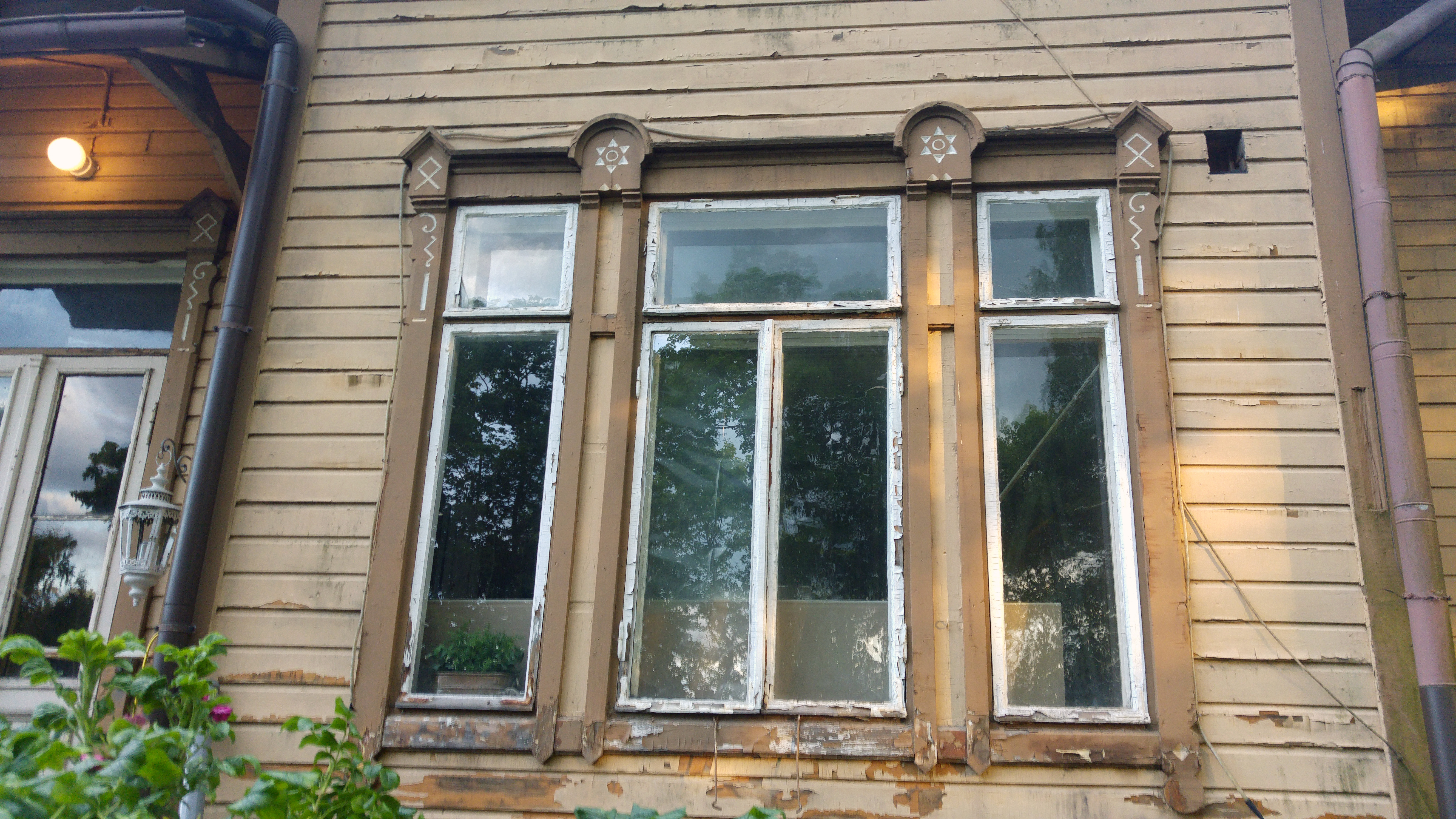 The window of the Piikkio railway station